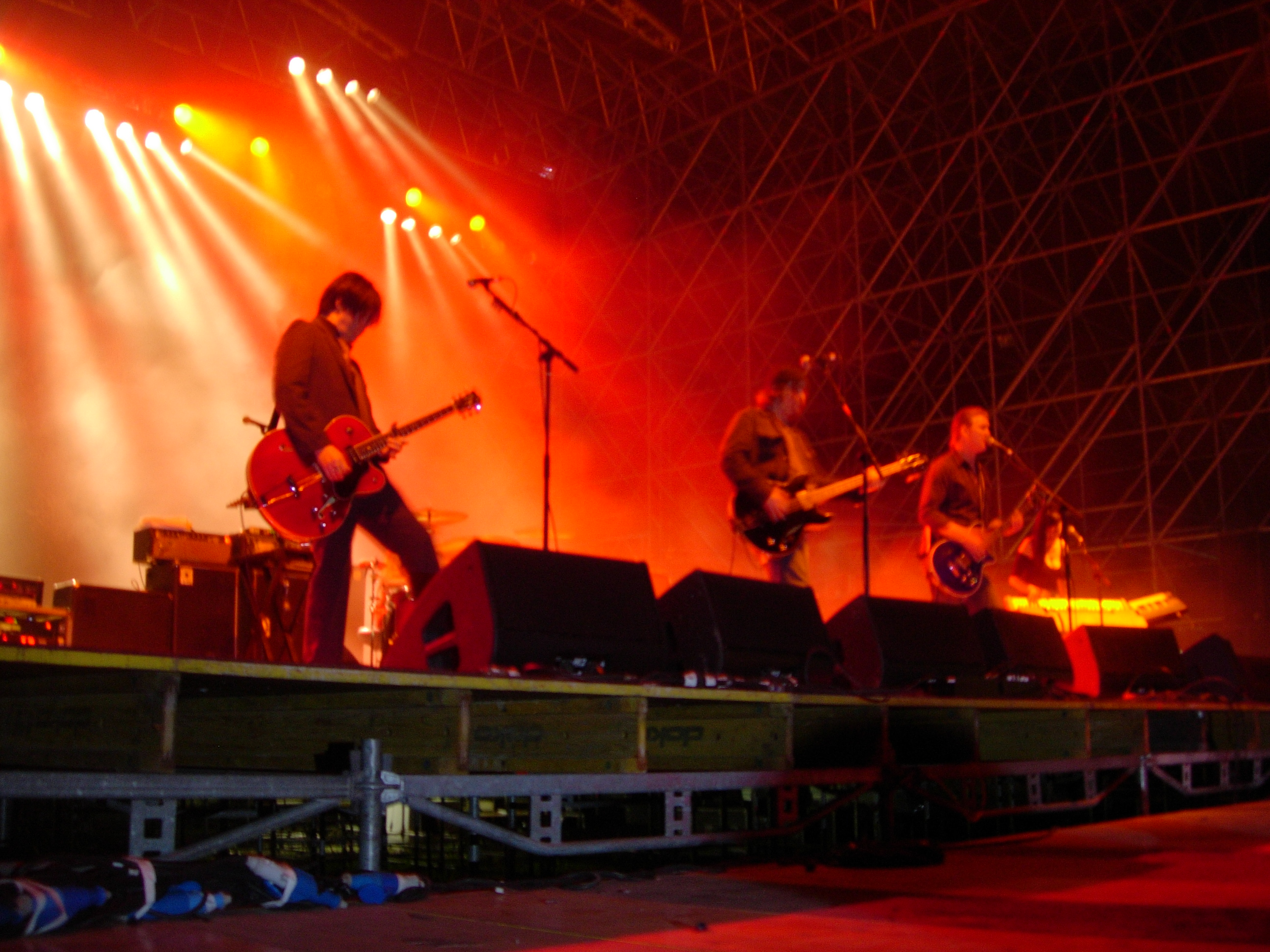 United States rock band Queens of the Stone Age at the "Independent Days Festival" in Bologna, 2005.